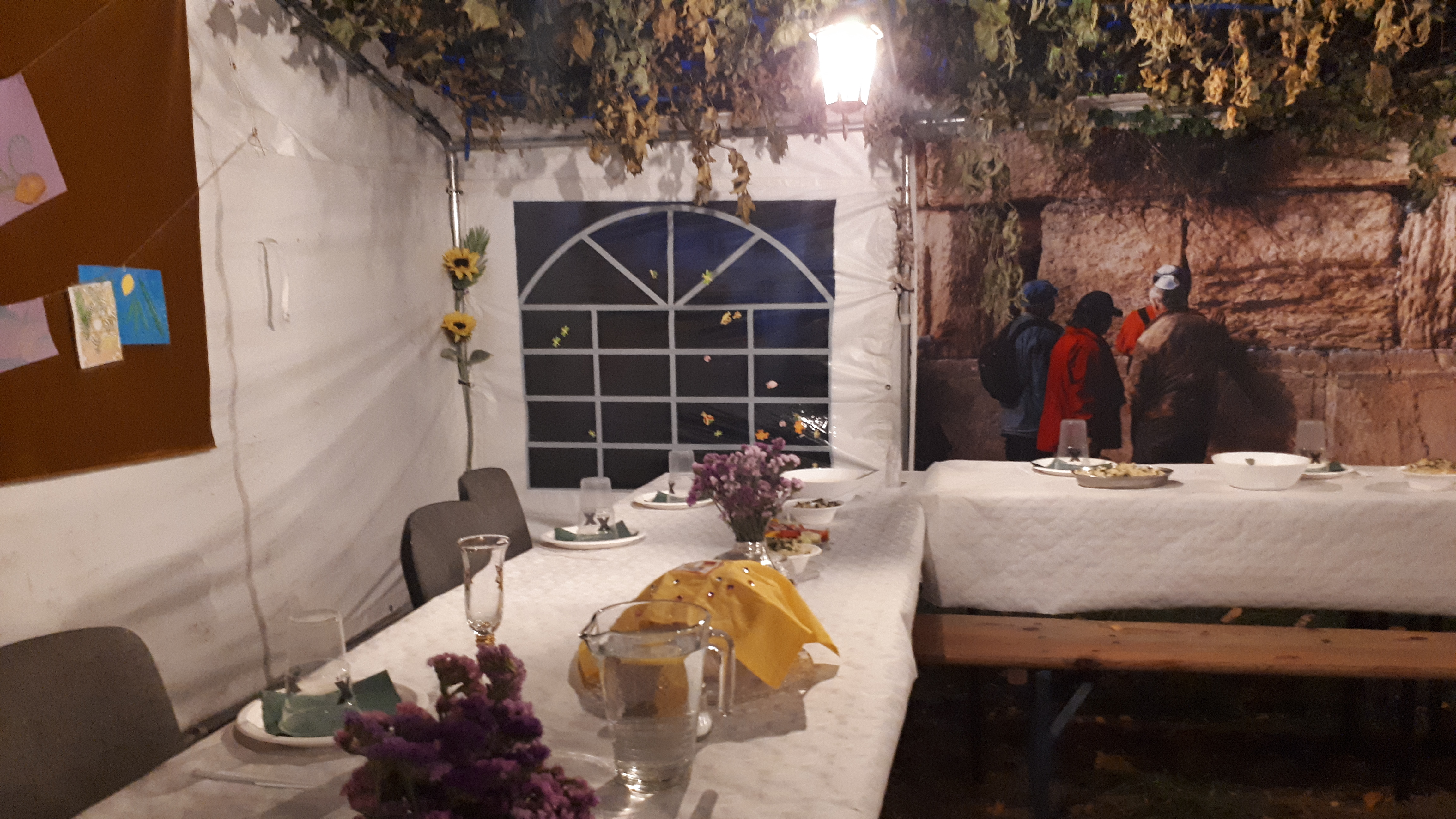 Sukkah, Lodz